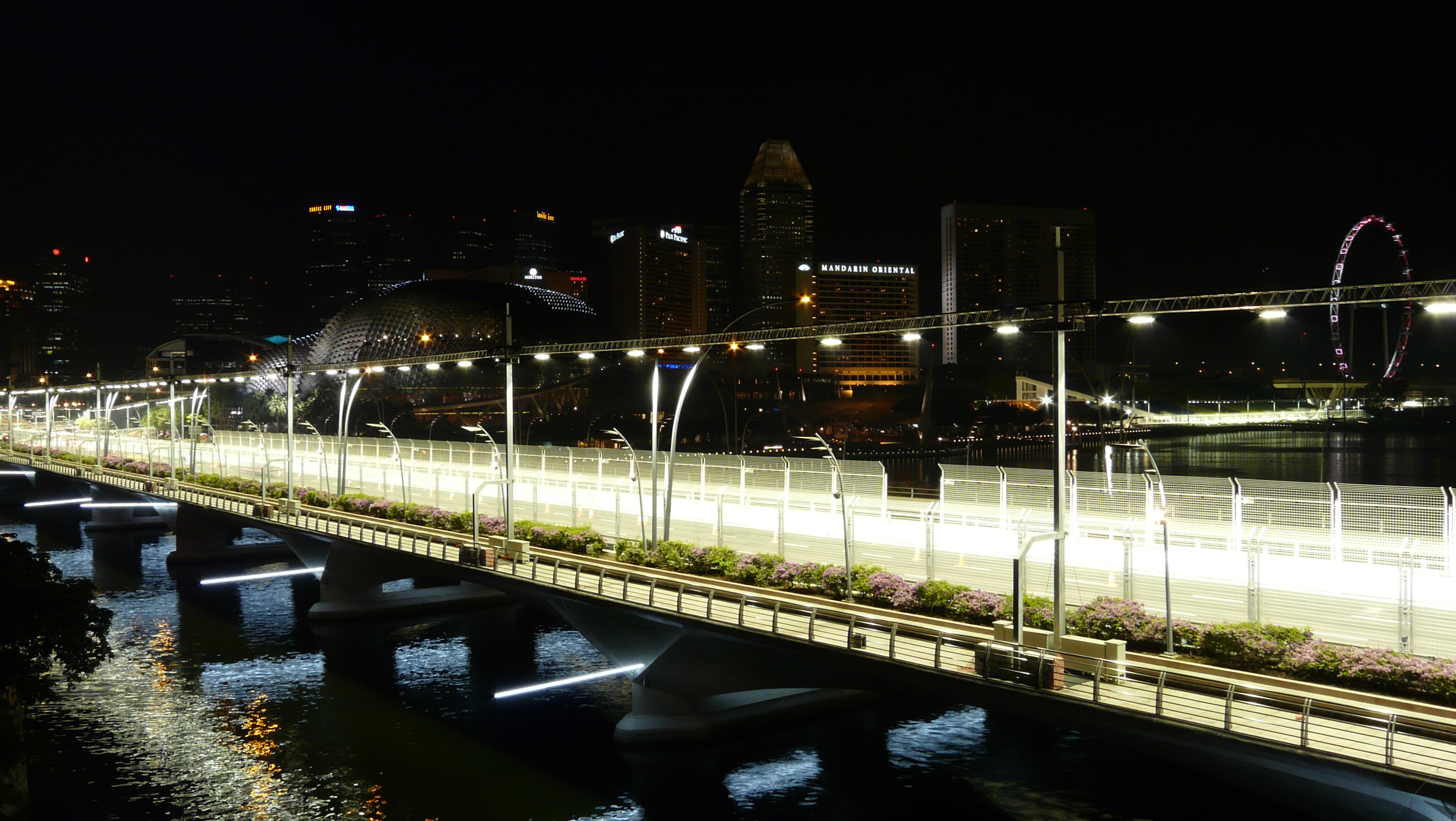 Fullerton stretch of Singapore Grand Prix pre-race